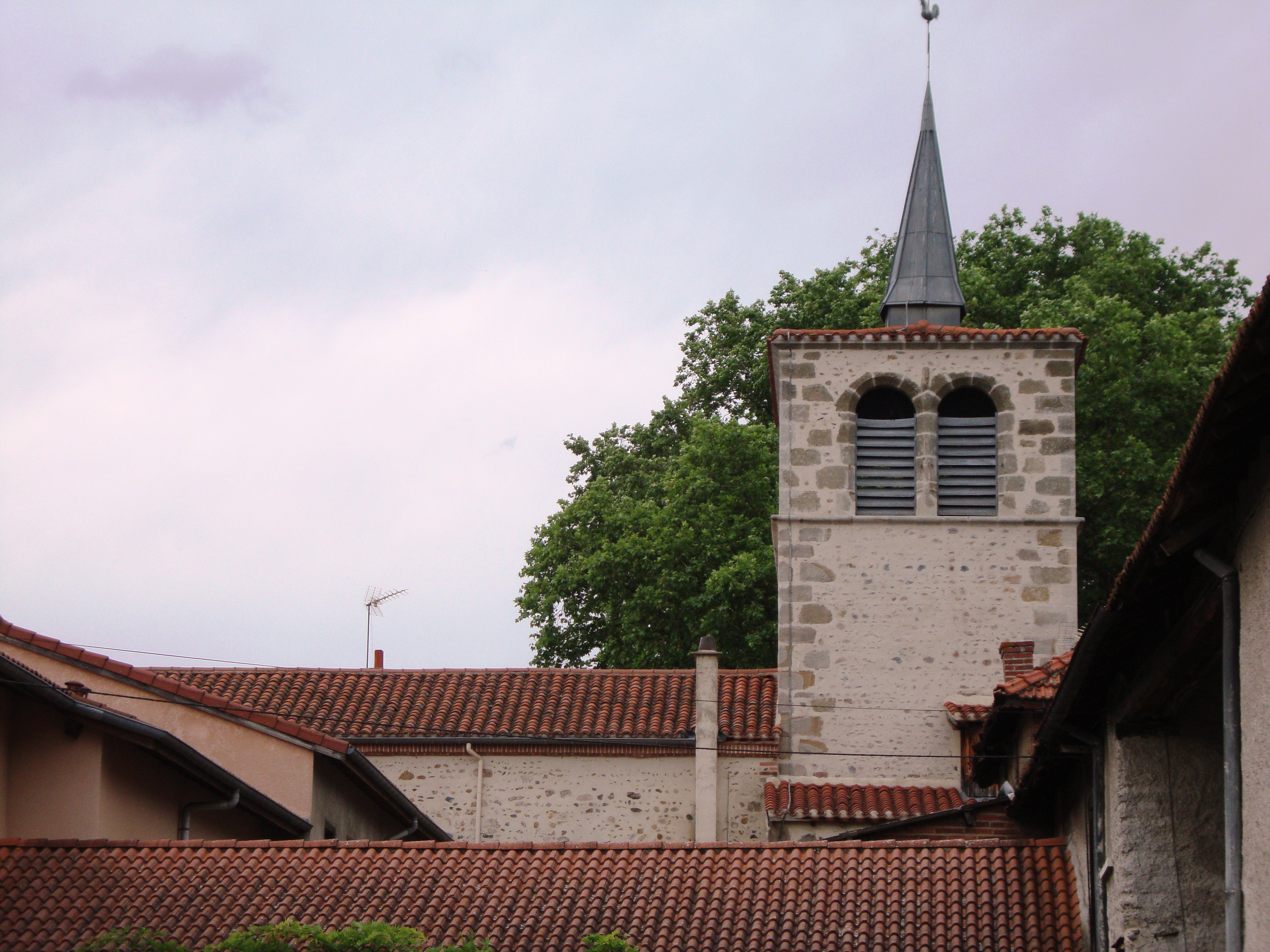 Cuzieu (Loire, Fr) église, toit et tour au-dessus des maisons